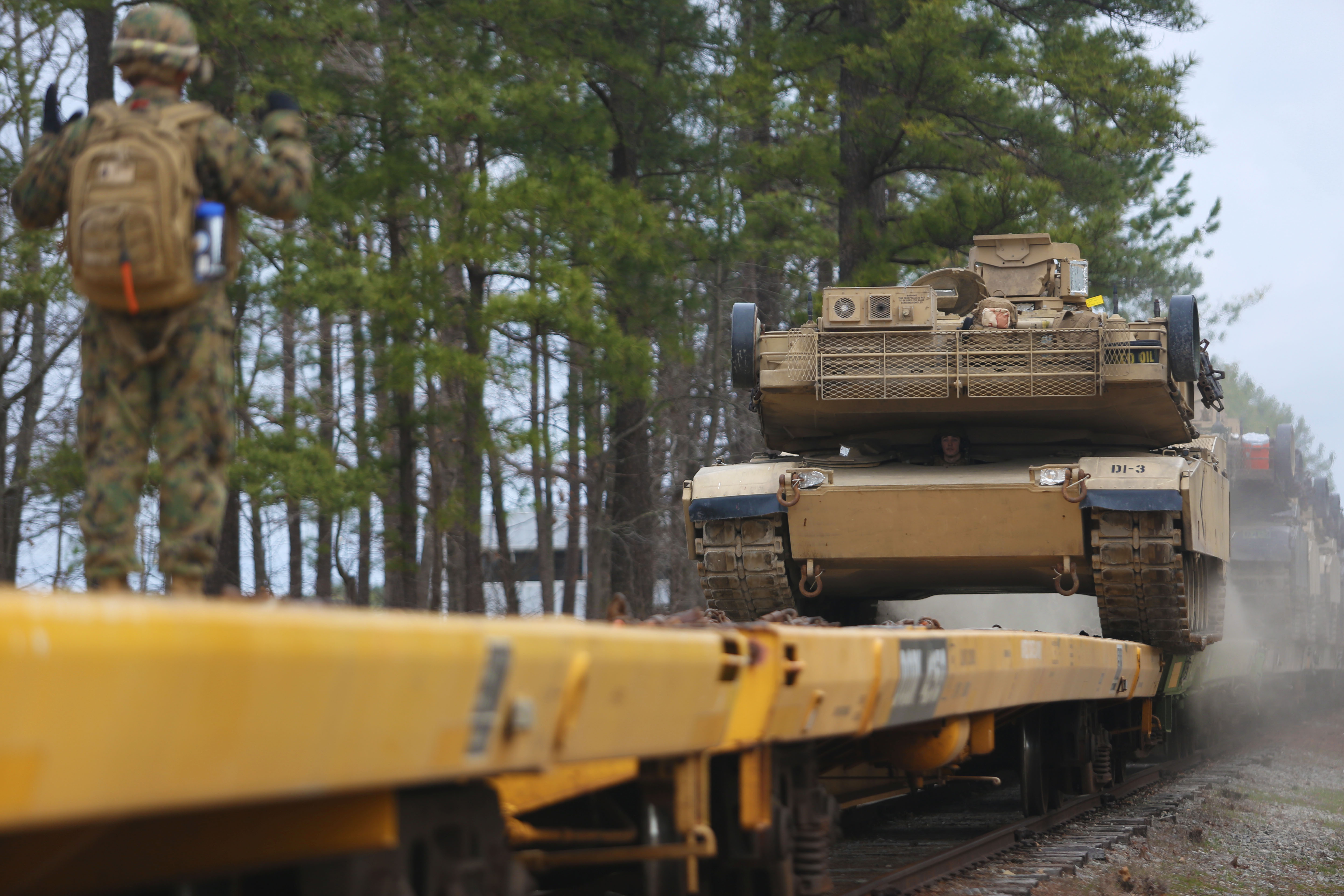 An M1A1 Abrams Main Battle Tank with 2nd Tank Battalion, 2nd Marine Division, drives down a railcar to unload at Fort Pickett, Va., for a month-long, field exercise, March 28, 2014. More than 350 Marines and sailors will participate in the training evolution. The tank is approximately one foot wider than the railcar, which makes this a slow paced and focused operation.